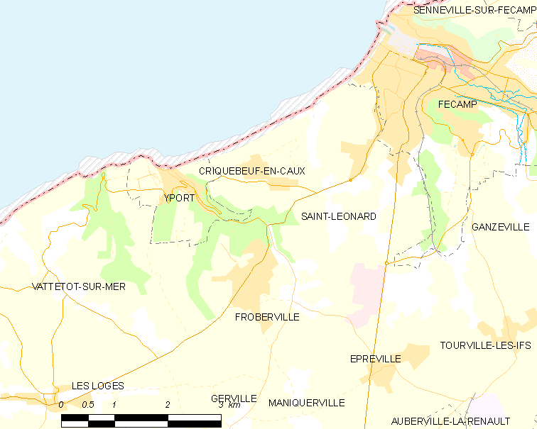 Map of French municipality Saint-Léonard